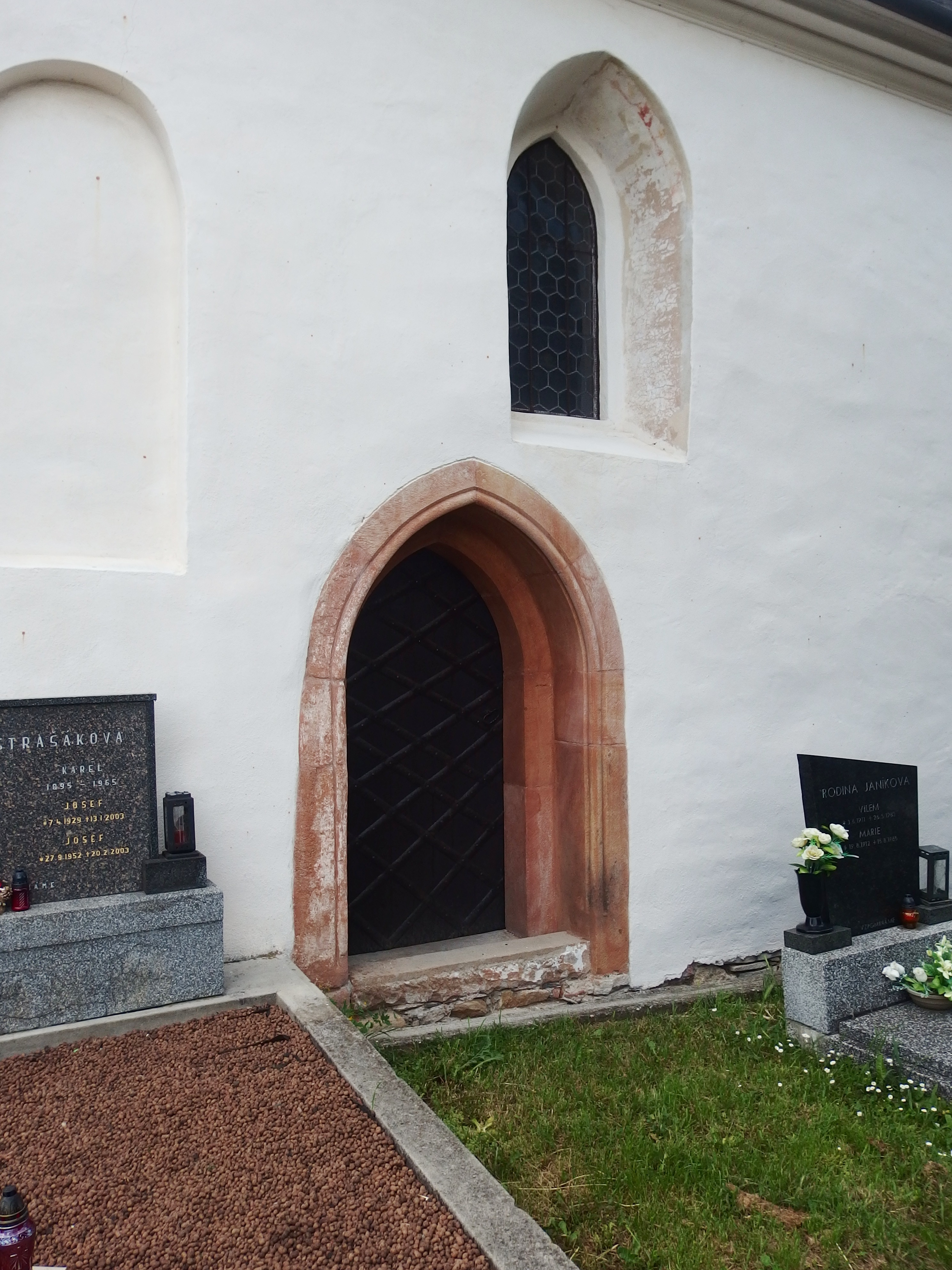 Kvasice, Kroměříž District, Czech Republic.